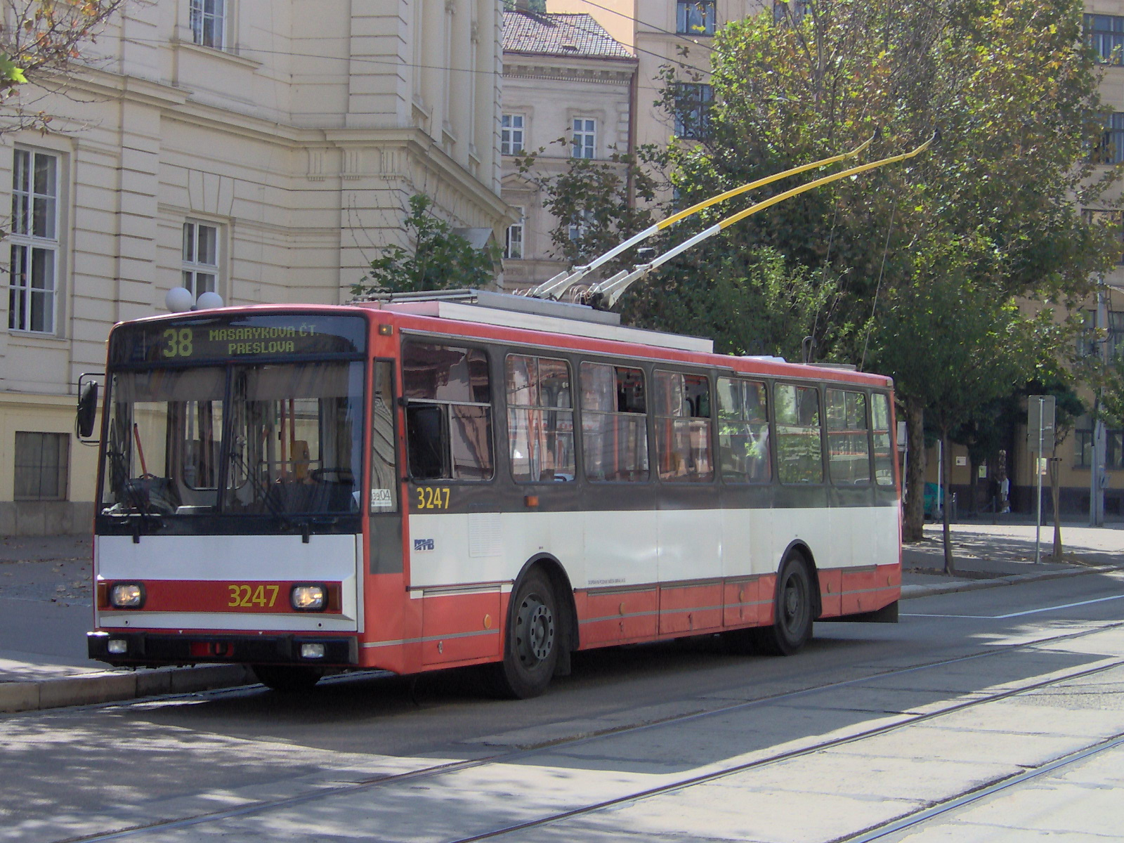 Škoda 14TrR modernized trolleybus in Brno